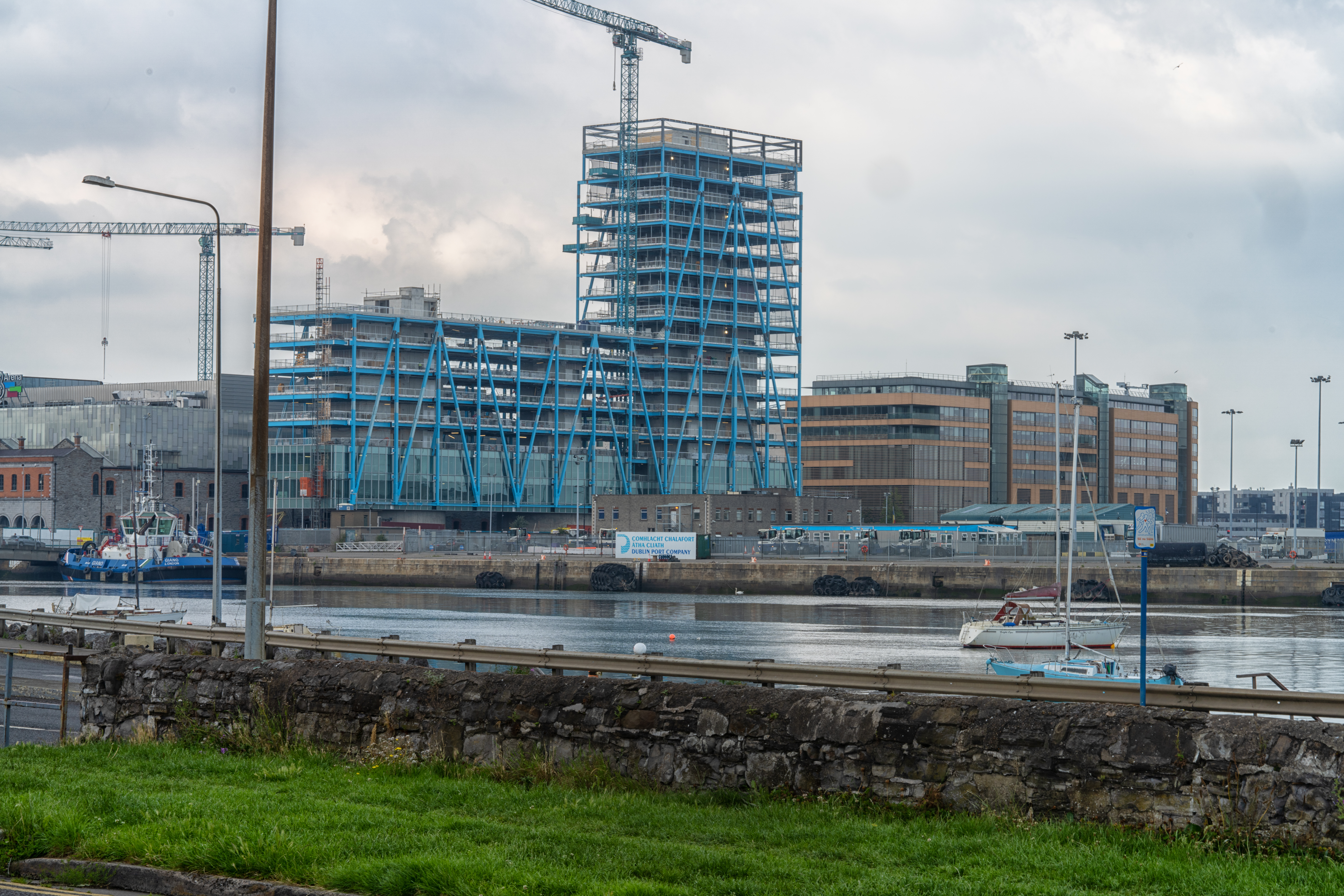 17 Floors, 73m, 170,000 square feet (2.9m floor to ceiling height)